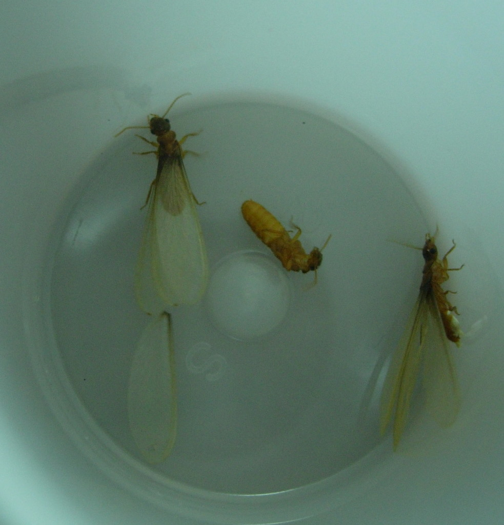 Termite alates in the spring